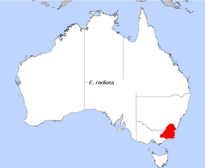 Distribution d'eucalyptus radiata